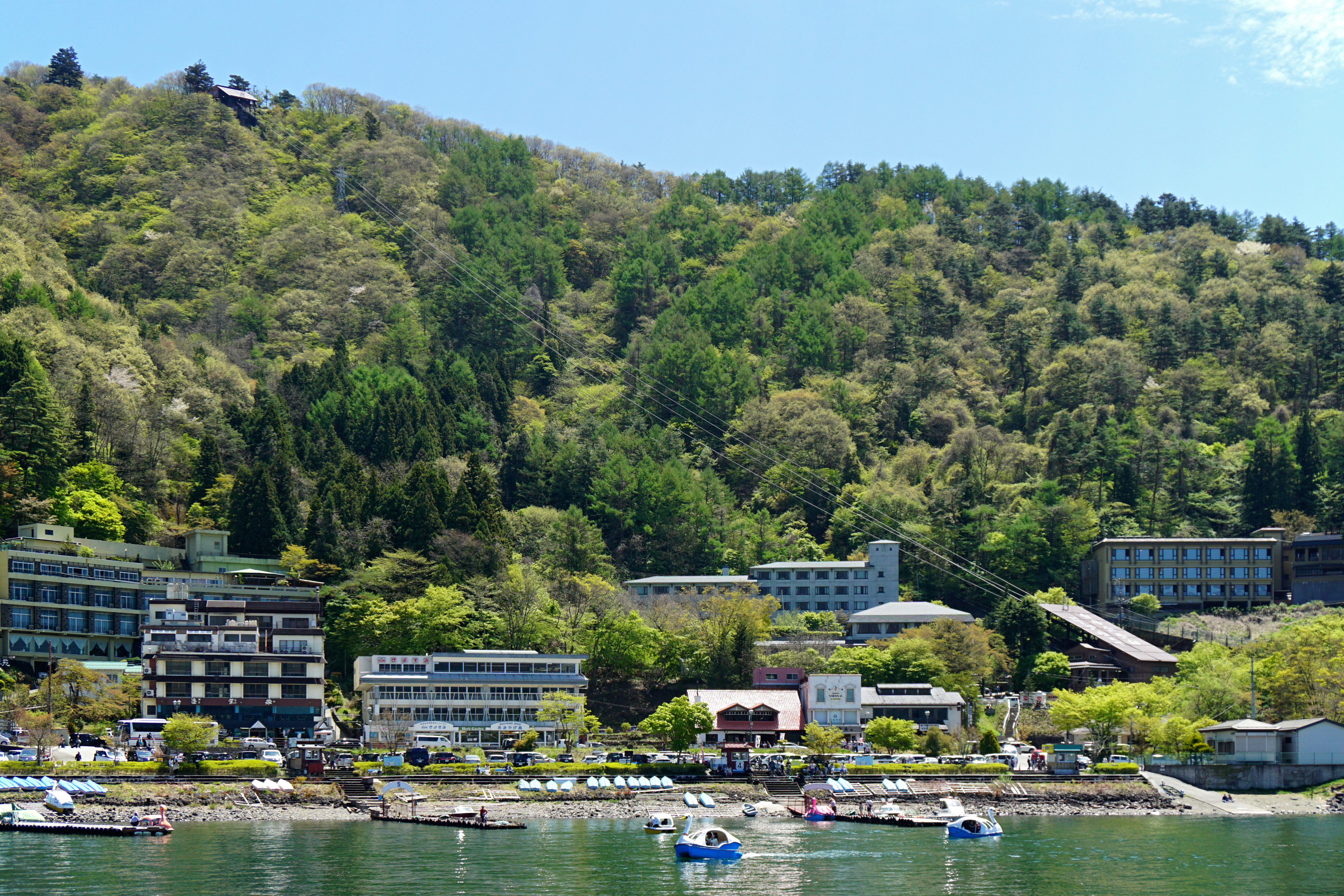 At Lake Kawaguchi in Kawaguchiko, Yamanashi Prefecture, Japan